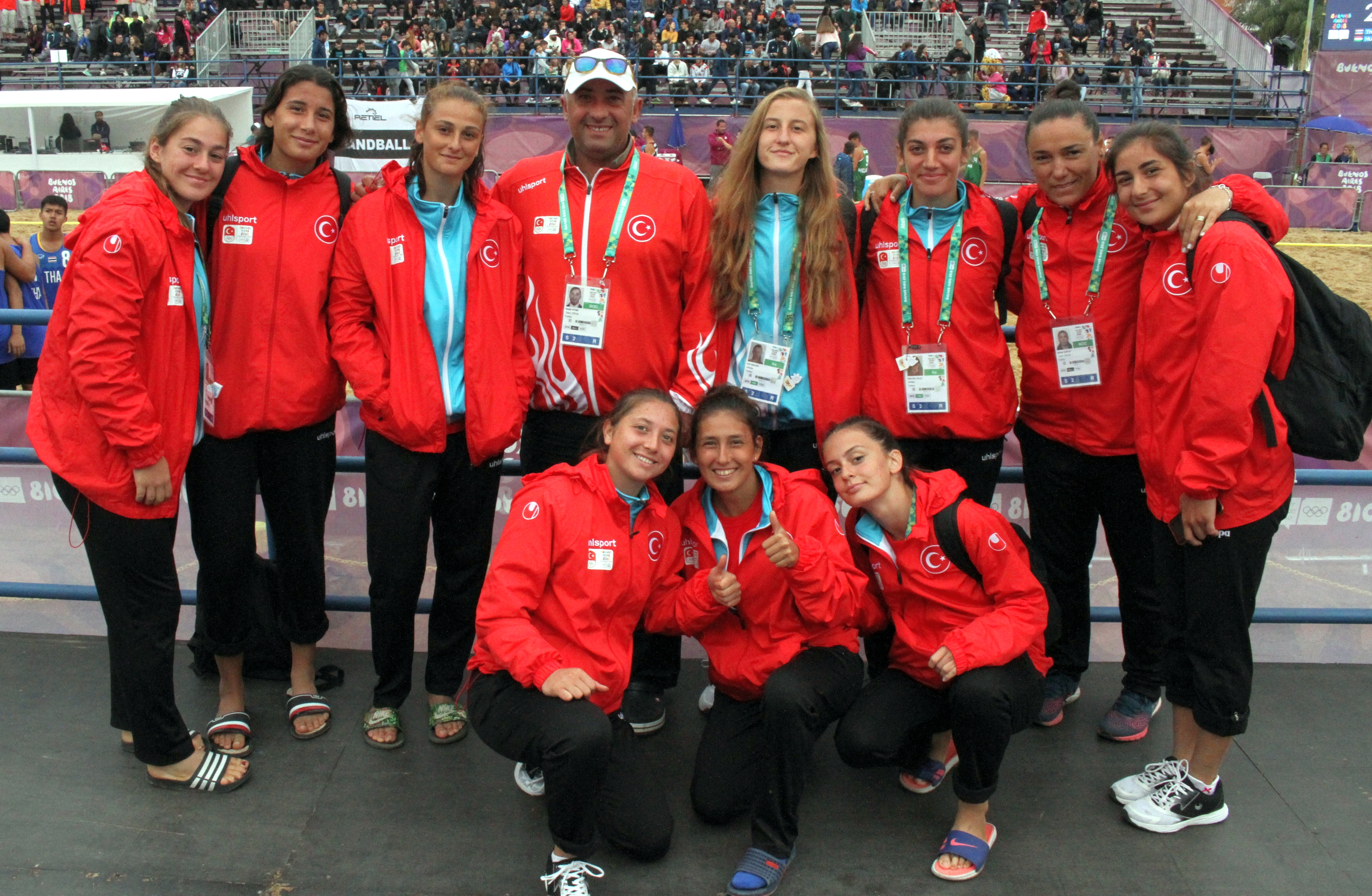 Beach handball at the 2018 Summer Youth Olympics at 12 October 2018 – Team of Turkey: Ayşenur Sormaz, Beyza Karaçam, Beyzanur Türkyılmaz, Ceyhan Coşkunsu, Dilek Yılmaz, Eda Nur Kılıç, Elif Dalkıç, Serap Yiğit, Sude Karademir, Coach Kadir Ayar, Assistant coach Senar Dayat